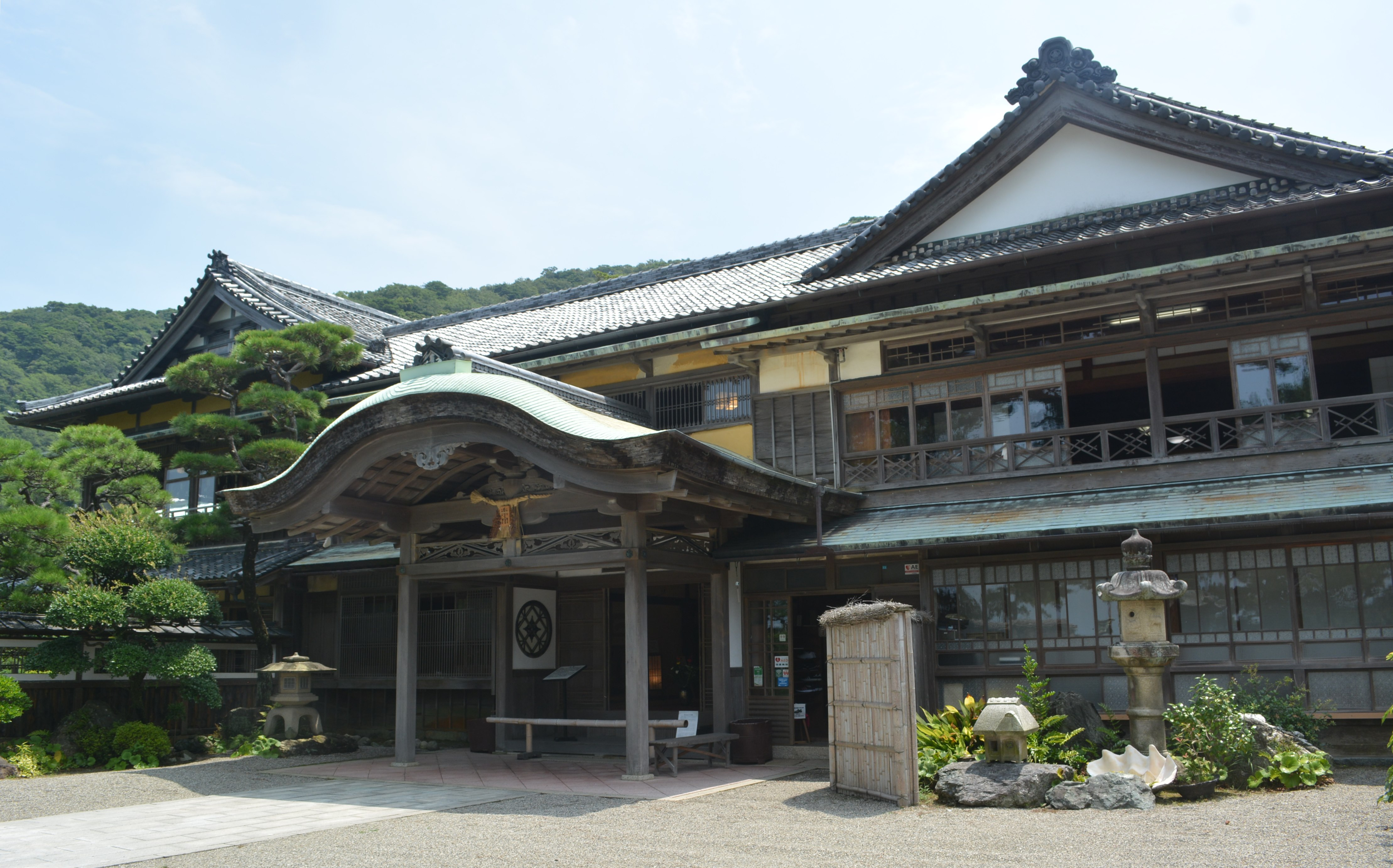 Hinjitsukan,Futami-cho,Ise city,Japan. The Hinjitsukan was built by a revered group of Ise Shrine in 1887. It was used by the Imperial family and key people.